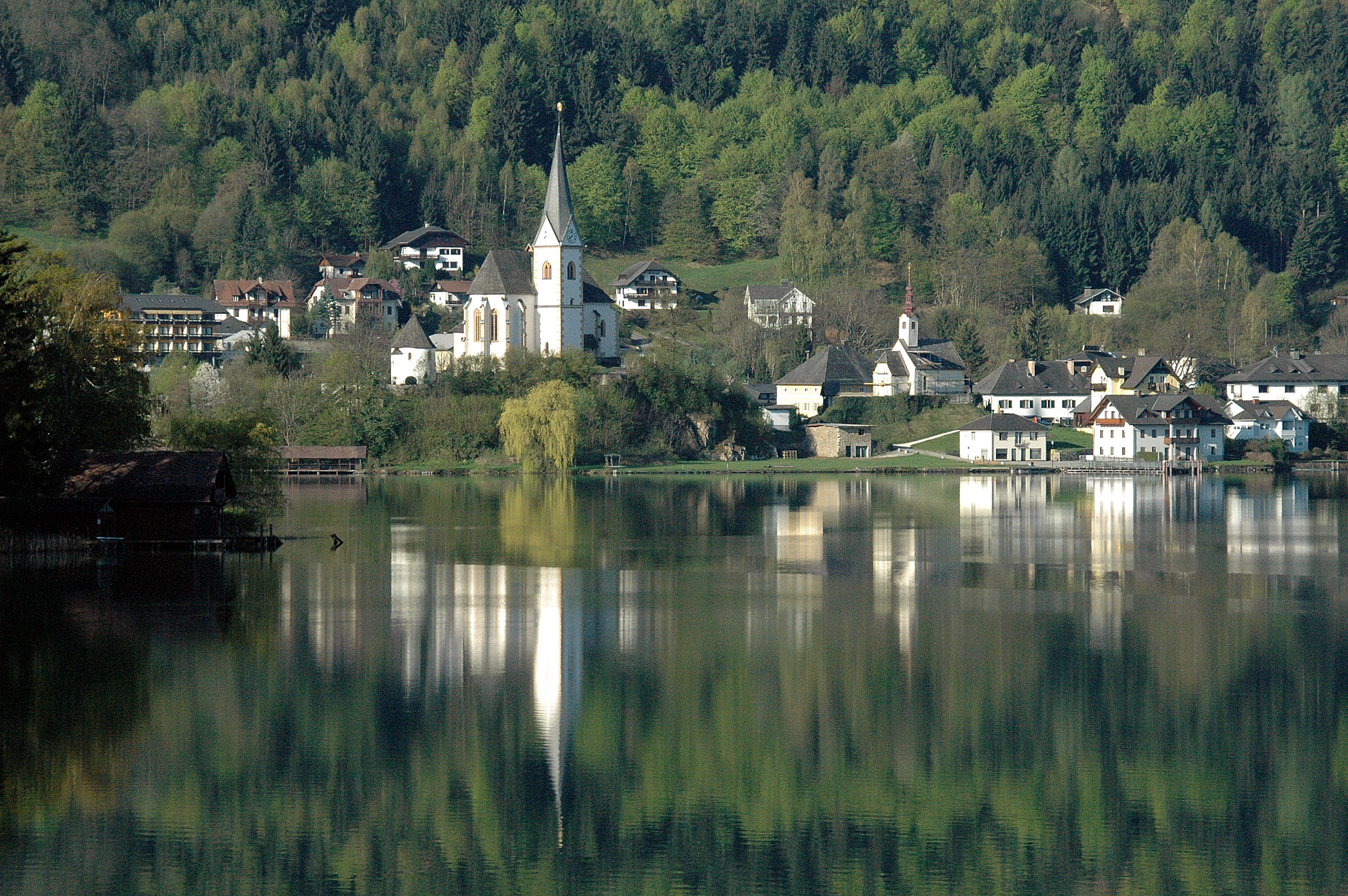 View at the peninsula of Maria Woerth, municipality Maria Wörth, district Klagenfurt Land, Carinthia / Austria / EU